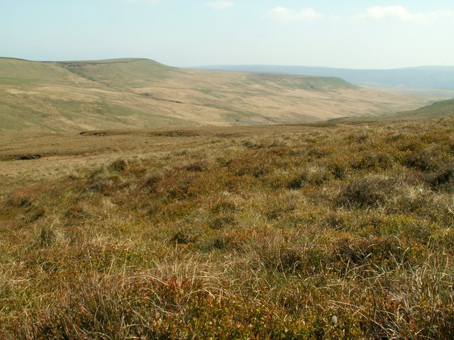 Tooleyshaw Moor Looking toBritland Edge Hill and Dewhill Naze.